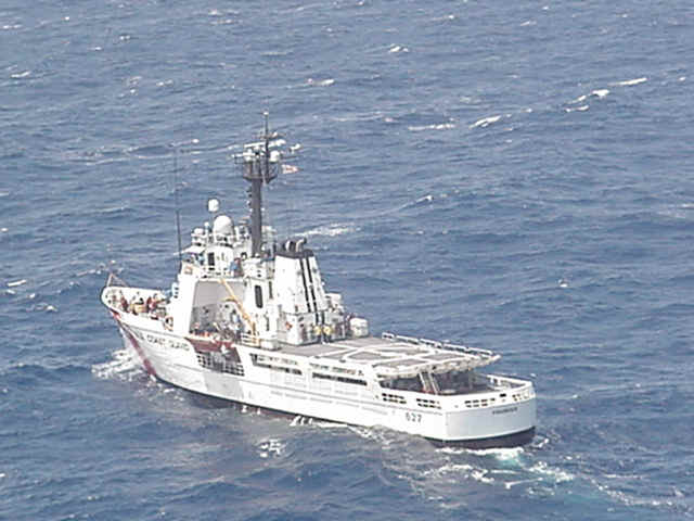 USCGC Vigorous (WMEC-627) in the Caribbean.